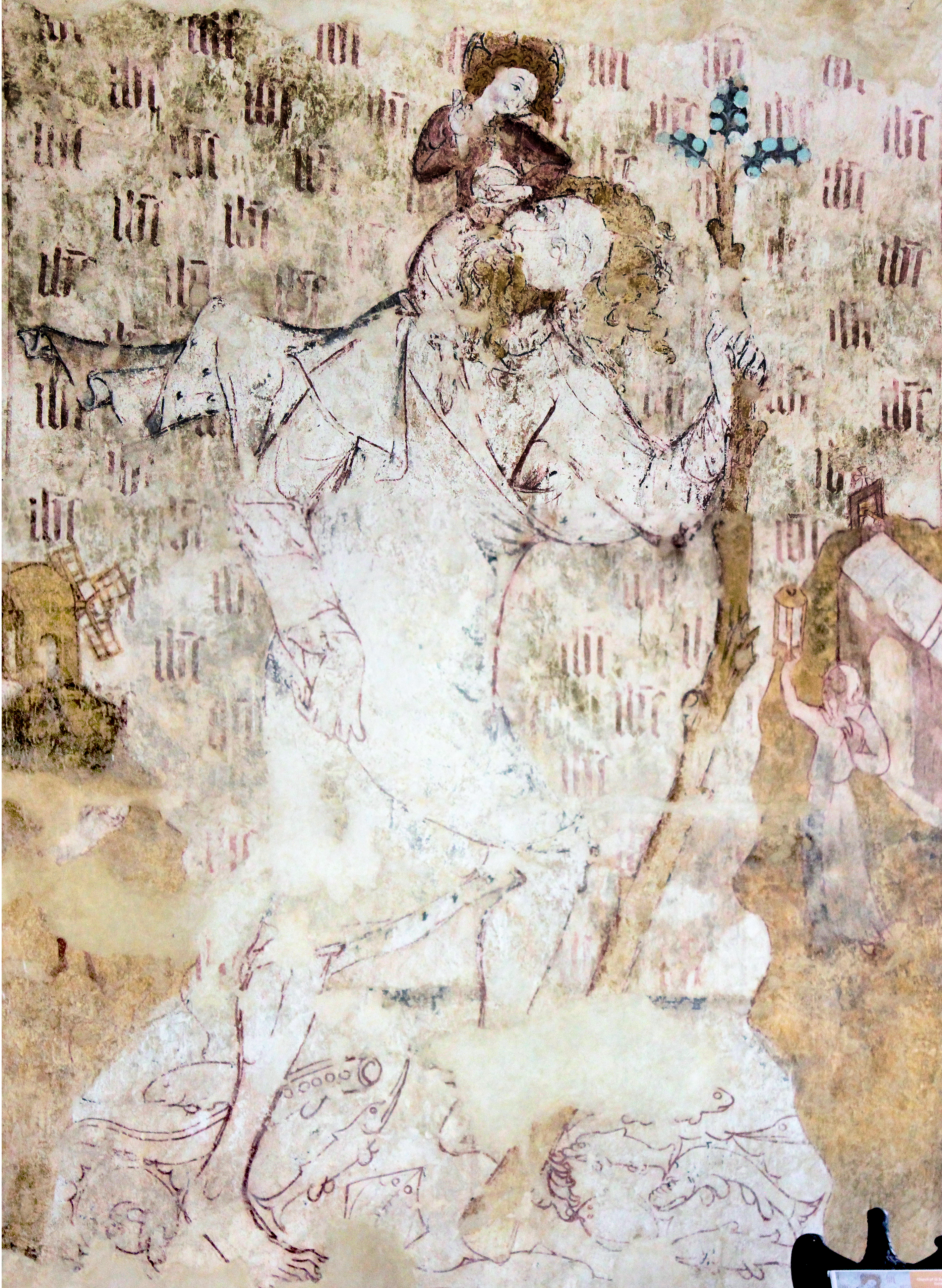 St. Saeran's church, Llanynys, Denbighshire, North Wales is a Grade 1 listed building. In 2015 a £4.5 million project came to an end, preserving this church.